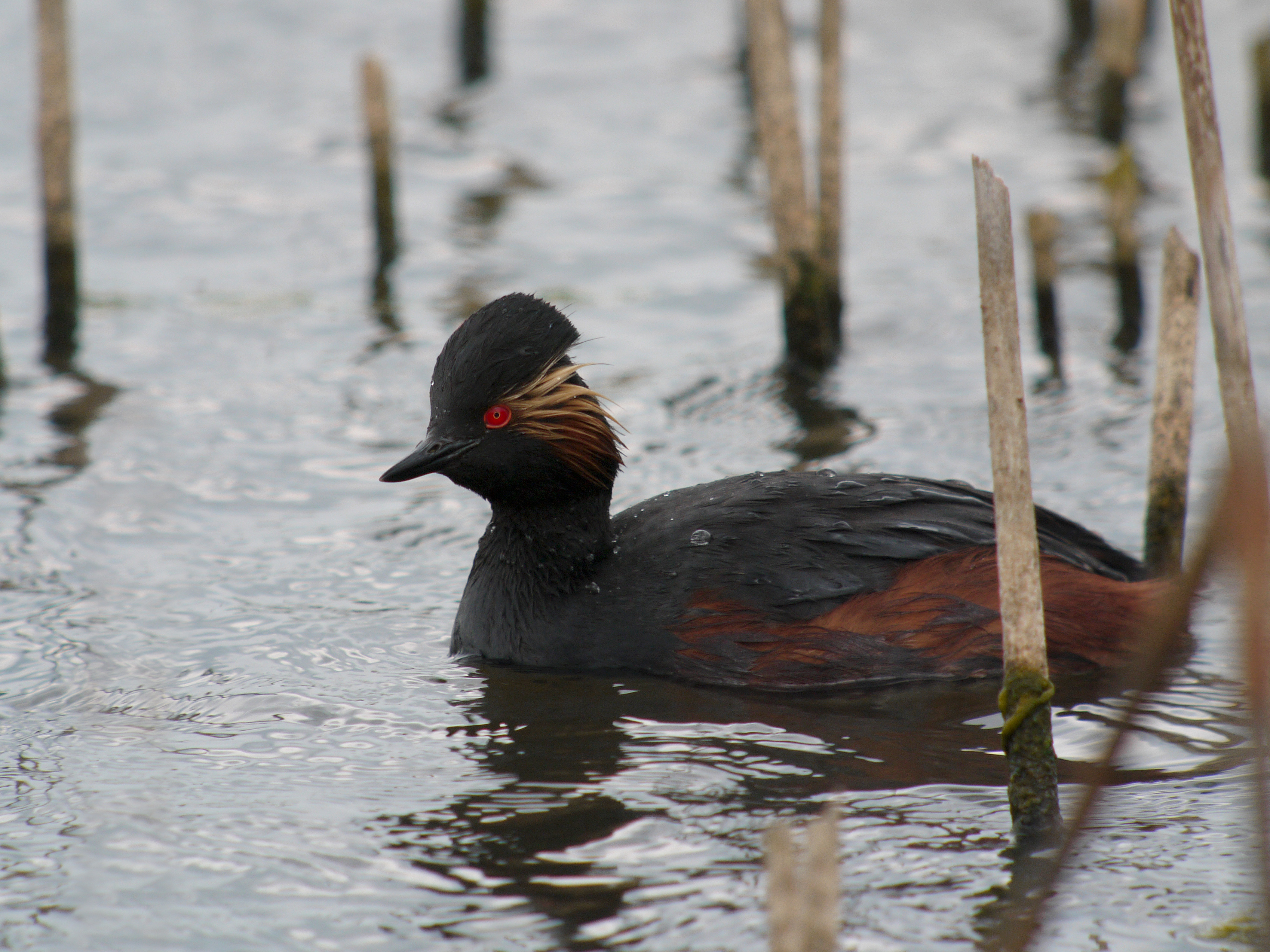 Black-necked Grebe Podiceps nigricollis, Hollogne-sur-Geer, Belgium